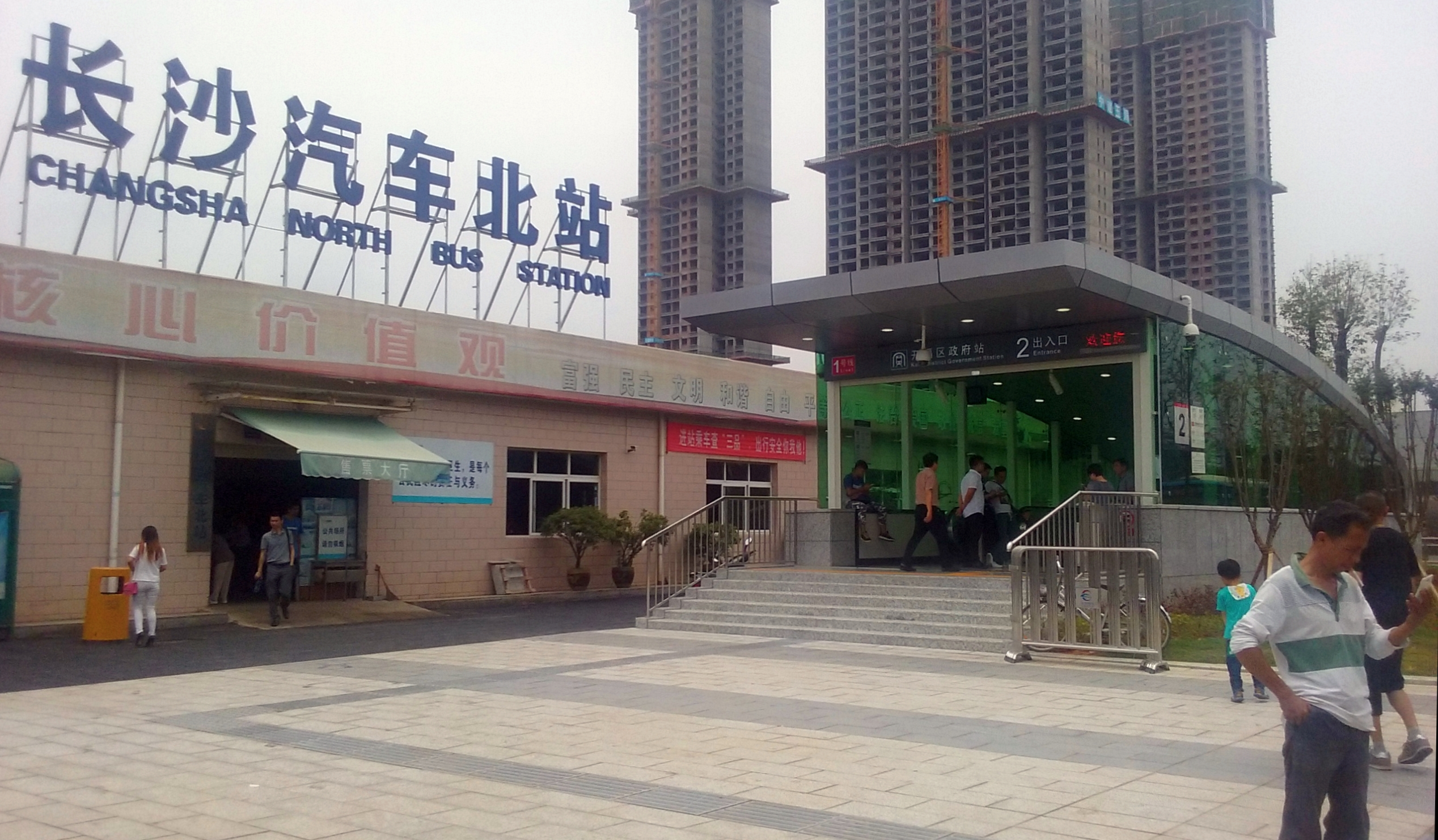 Entrance No.2 of Kaifu District Government Station near from North Bus Station(former site)